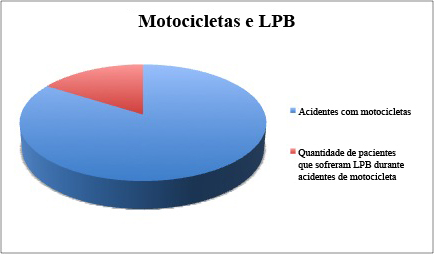 Figure 4 shows how motorcycles are a major cause of Brachial Plexus Injury.